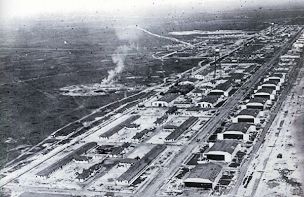 Gerstner Field - Louisiana, 1918, looking north to south.